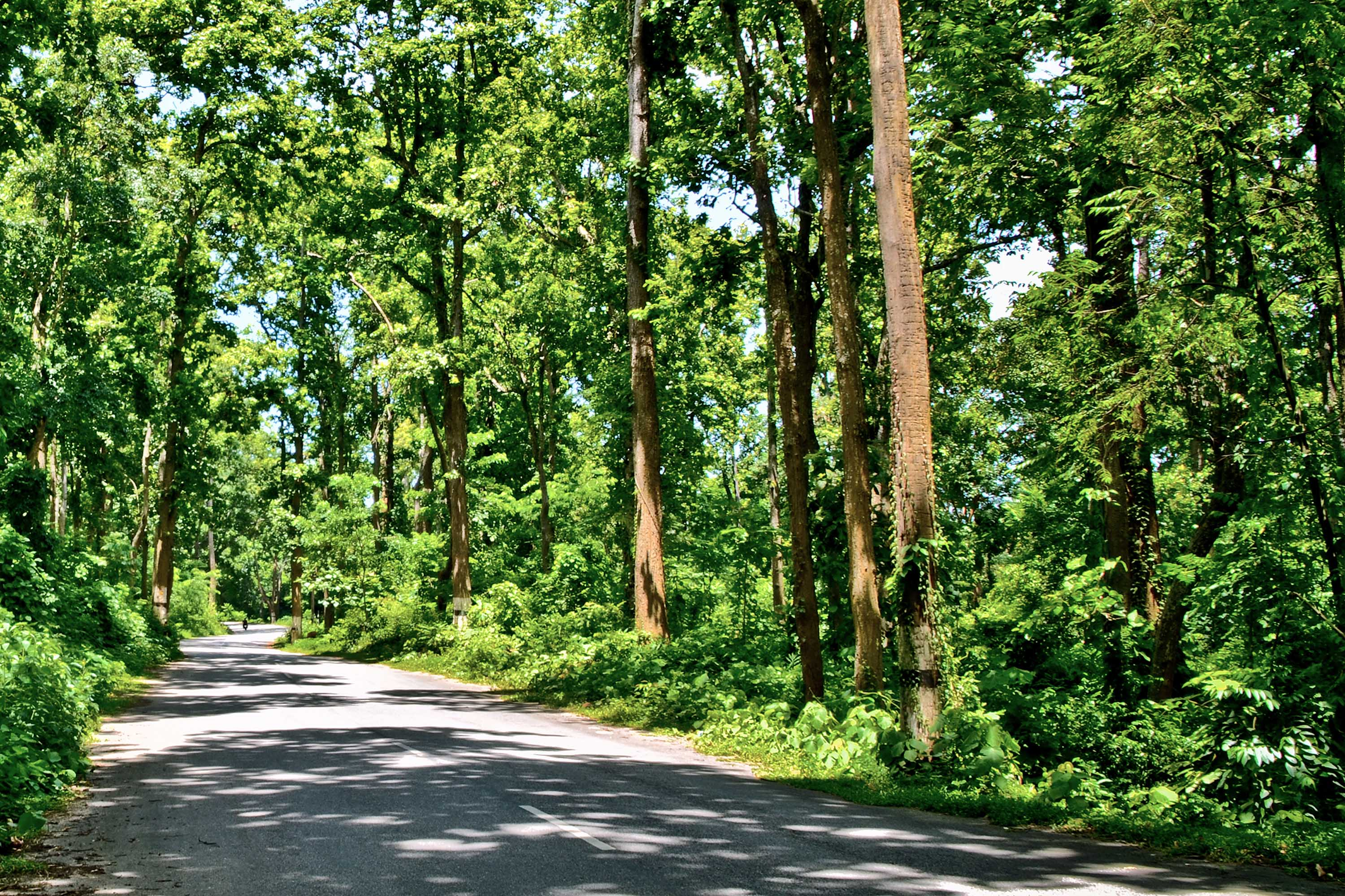 The National Highway passing through the Parakhowa forest in Karbi Anglong district of Assam.